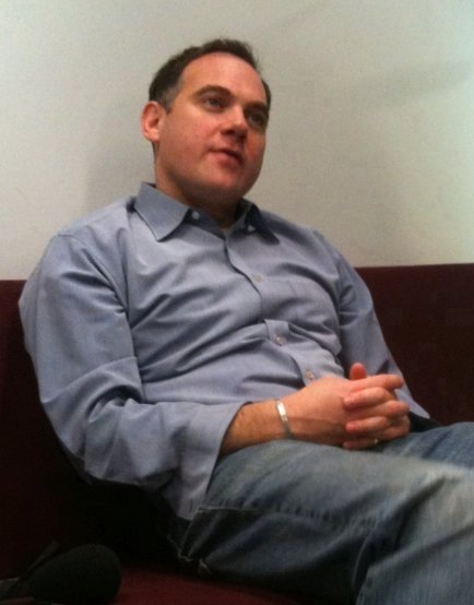 crop from larger image of Paddy O'Connell in Radio 4 HQ waiting to interview Mark Damazer